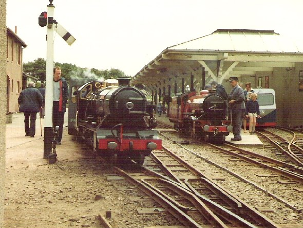 Eskdale Ravenglass Railway. The Ravenglass and Eskdale Railway's River Esk (left) and River Mite (centre) steam locomotives, and Silver Jubilee railcar (right) wait in the station at Ravenglass.